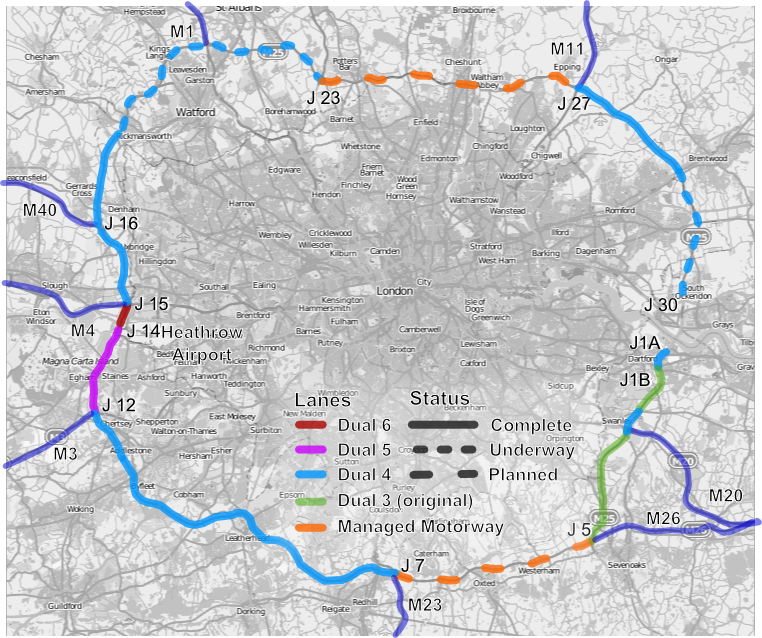 A map showing the width and time of construction of different stretches of the M25.